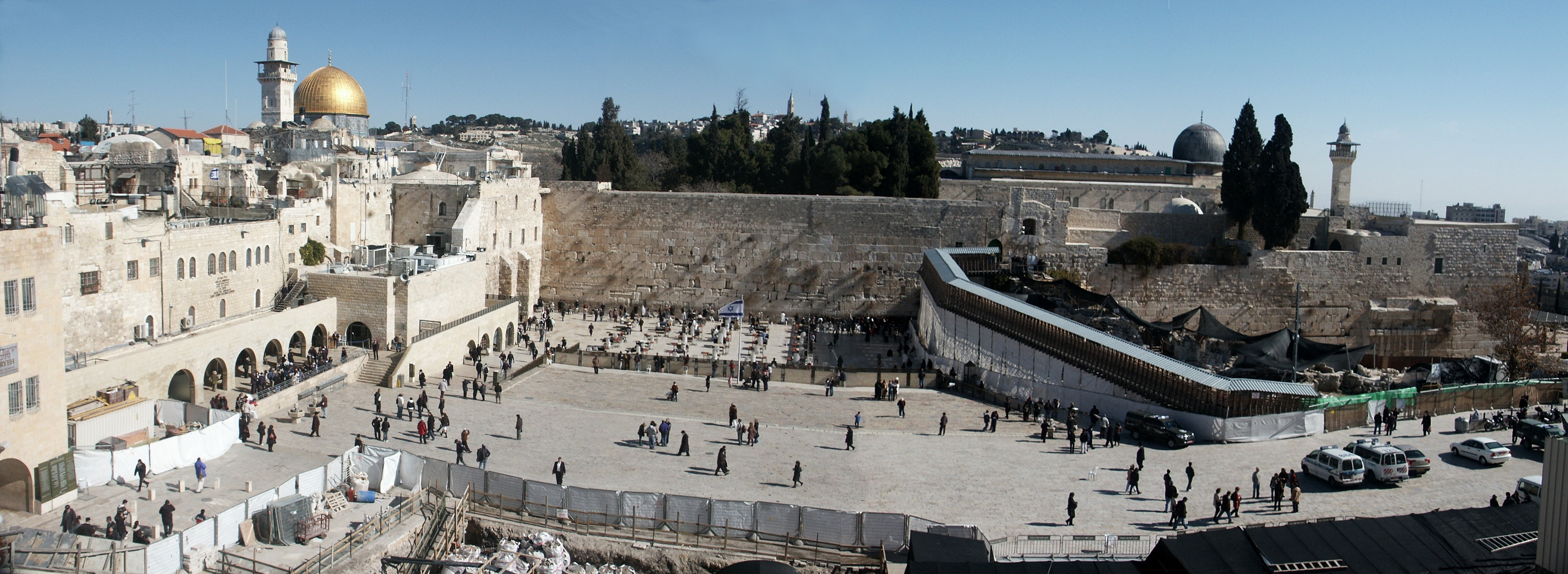 The western wall of the temple mount, sacred place for Judaism